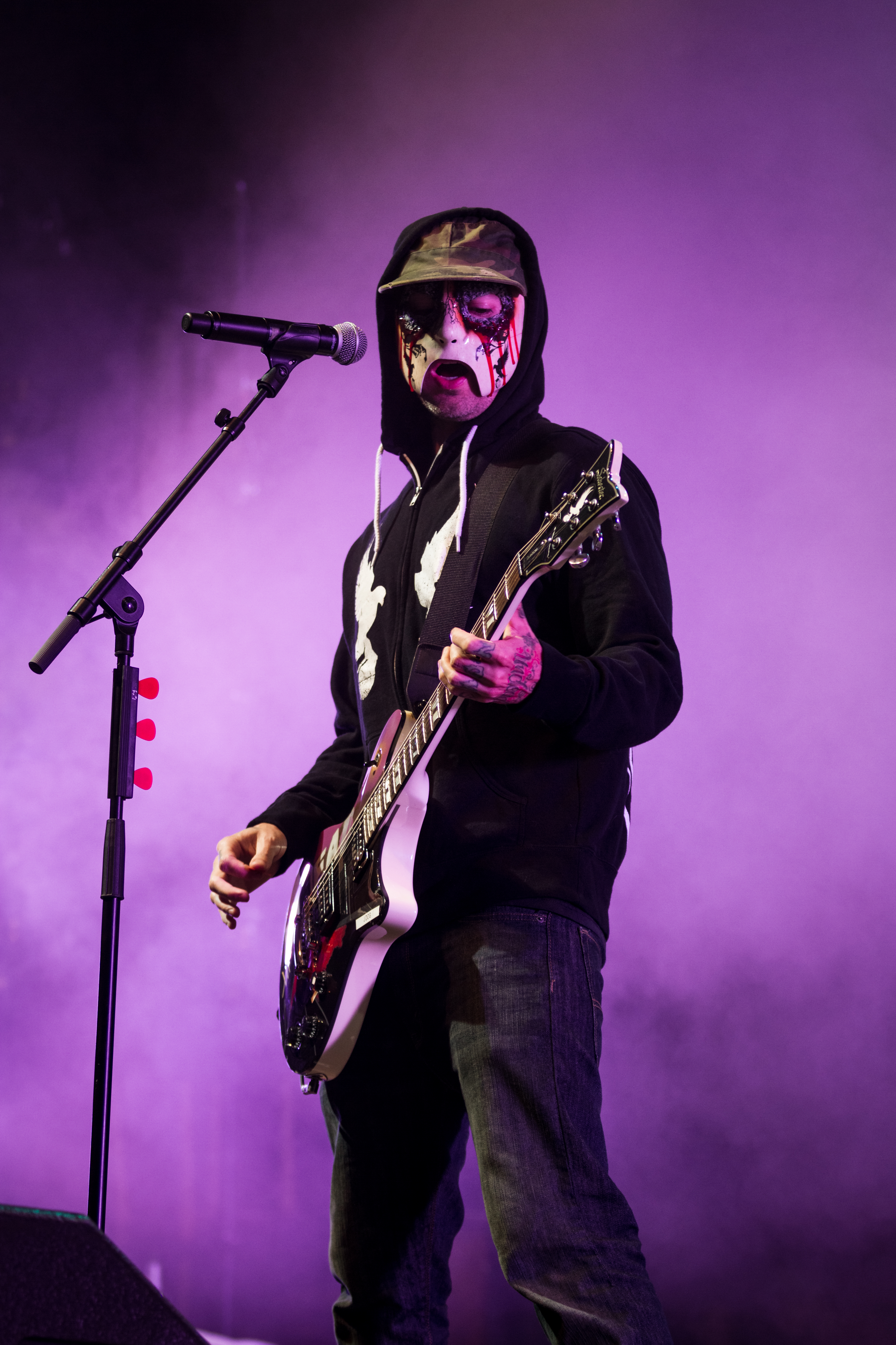 Hollywood Undead - Rock am Ring 2015